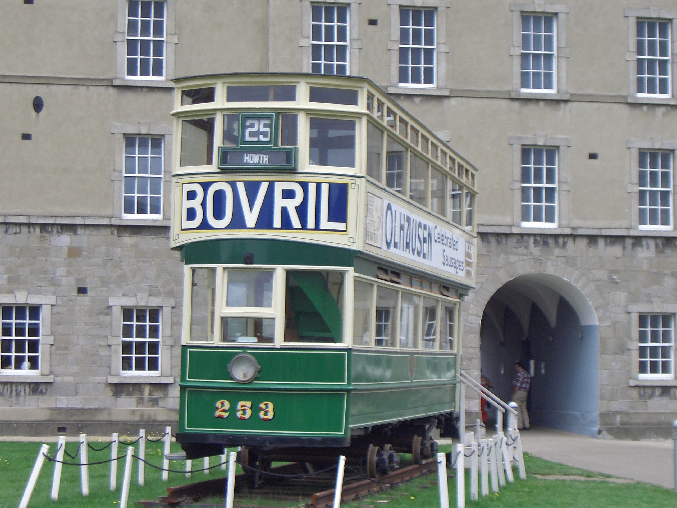 A Dublin tram, number 253, outside the National Museum of Ireland in Ireland.